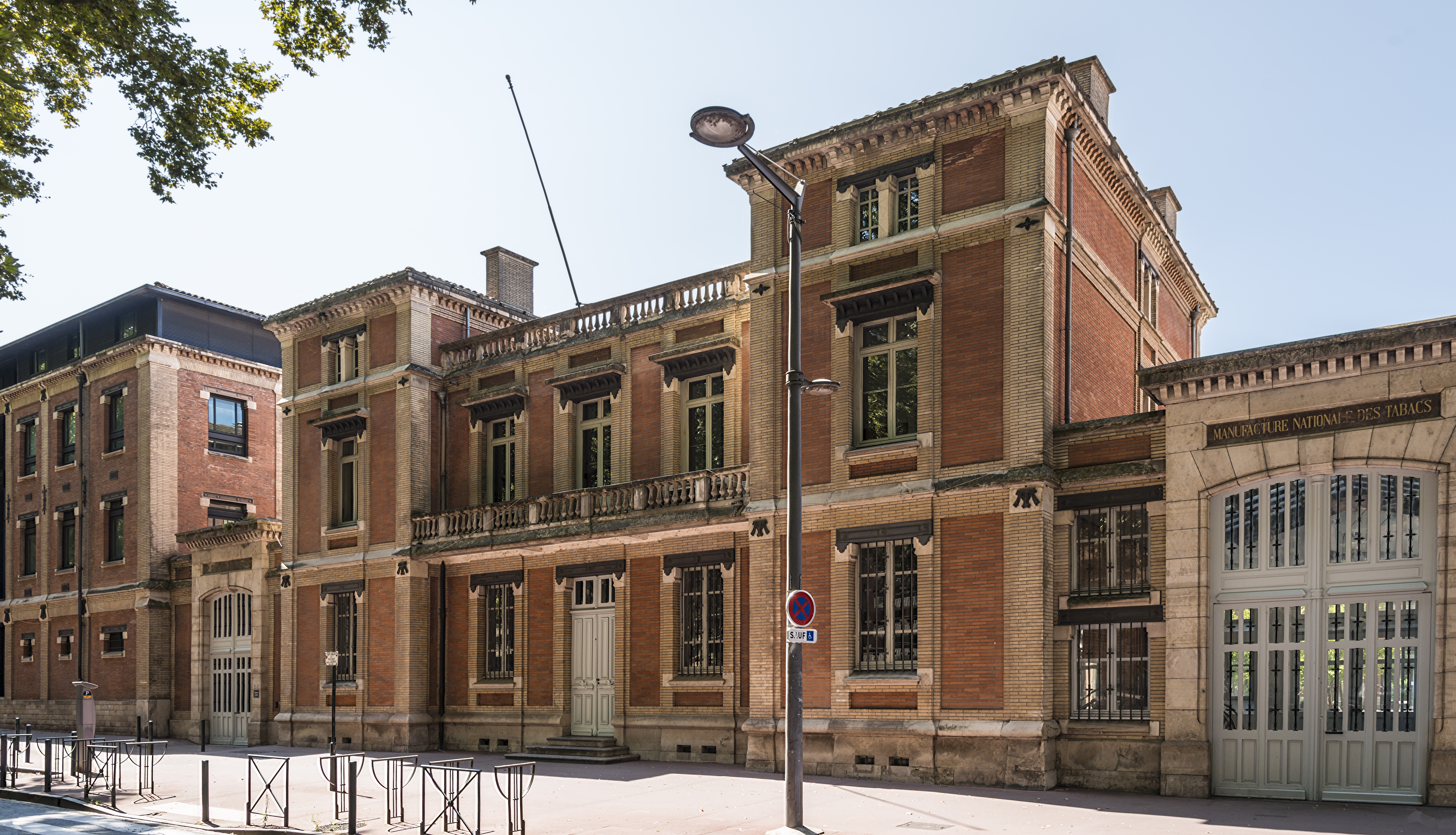 Old tobacco factory, Allée de Brienne in Toulouse. Built between 1888 and 1894. Actualy Toulouse School of Economics.